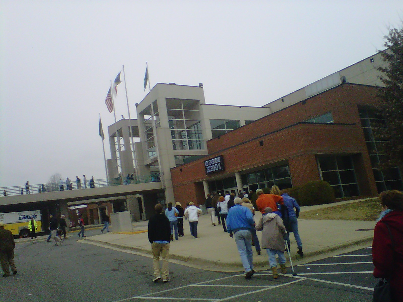 Scene outside Greensboro Coliseum before basketball game.